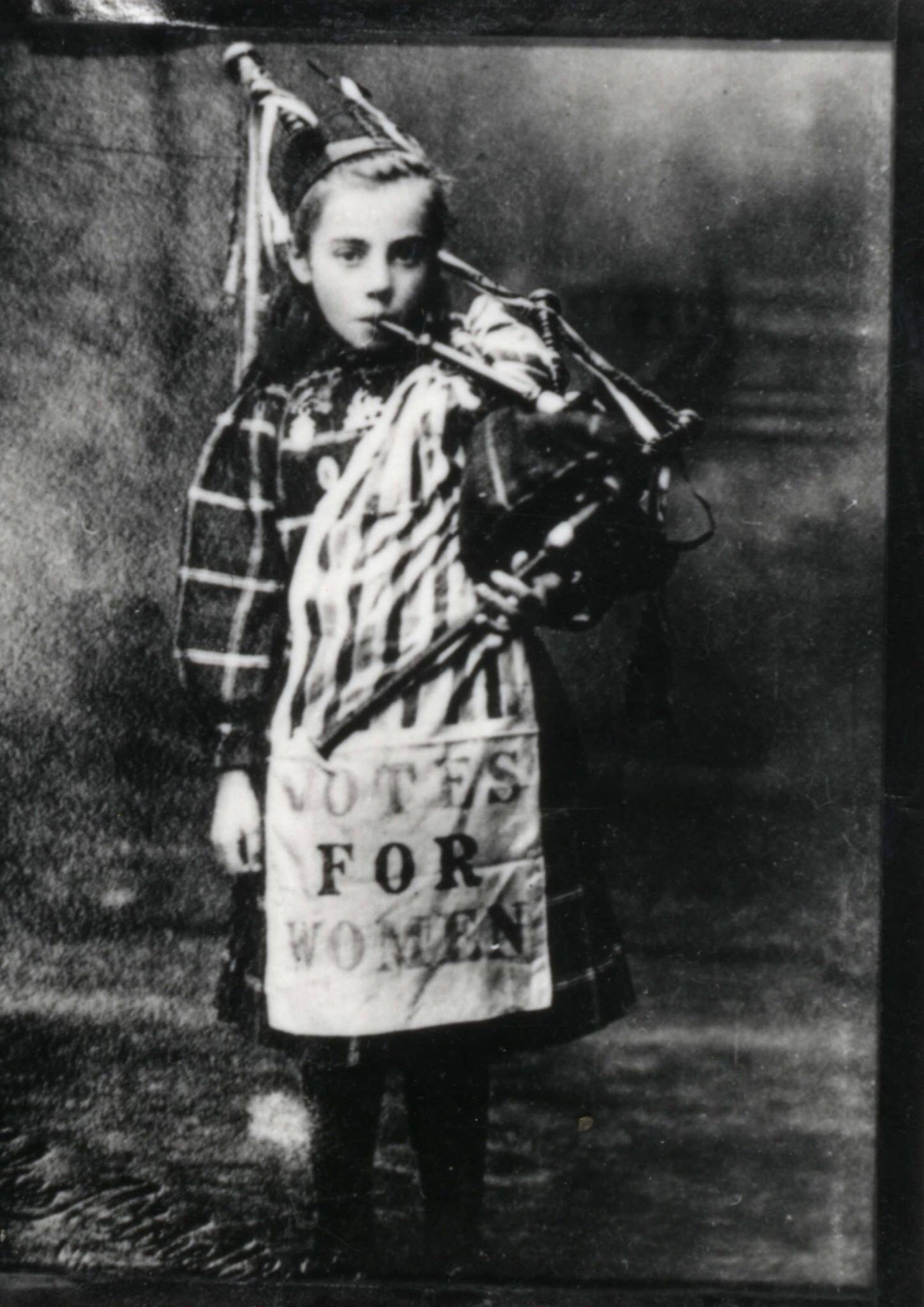 Bessie Watson - suffragette aged 9 years old. In 1909, the Women's Social and Political Union (WSPU) staged a march through Edinburgh to demonstrate "what women have done and can and will do". Bessie Watson had played the bagpipes from an early age and at the age of nine she was asked to join the WSPU march and play the pipes. The march had a big impact on Bessie and she became involved in the suffragette movement. This involved playing the pipes outside the Calton Gaol to raise the spirits of incarcerated suffragettes. Playing the pipes led Bessie to do remarkable things and she became one of the first Girl Guides in Edinburgh and was seen by the King. The Capital Collections exhibition includes images of Bessie and the 1909 march as well as pictures of Calton Gaol.